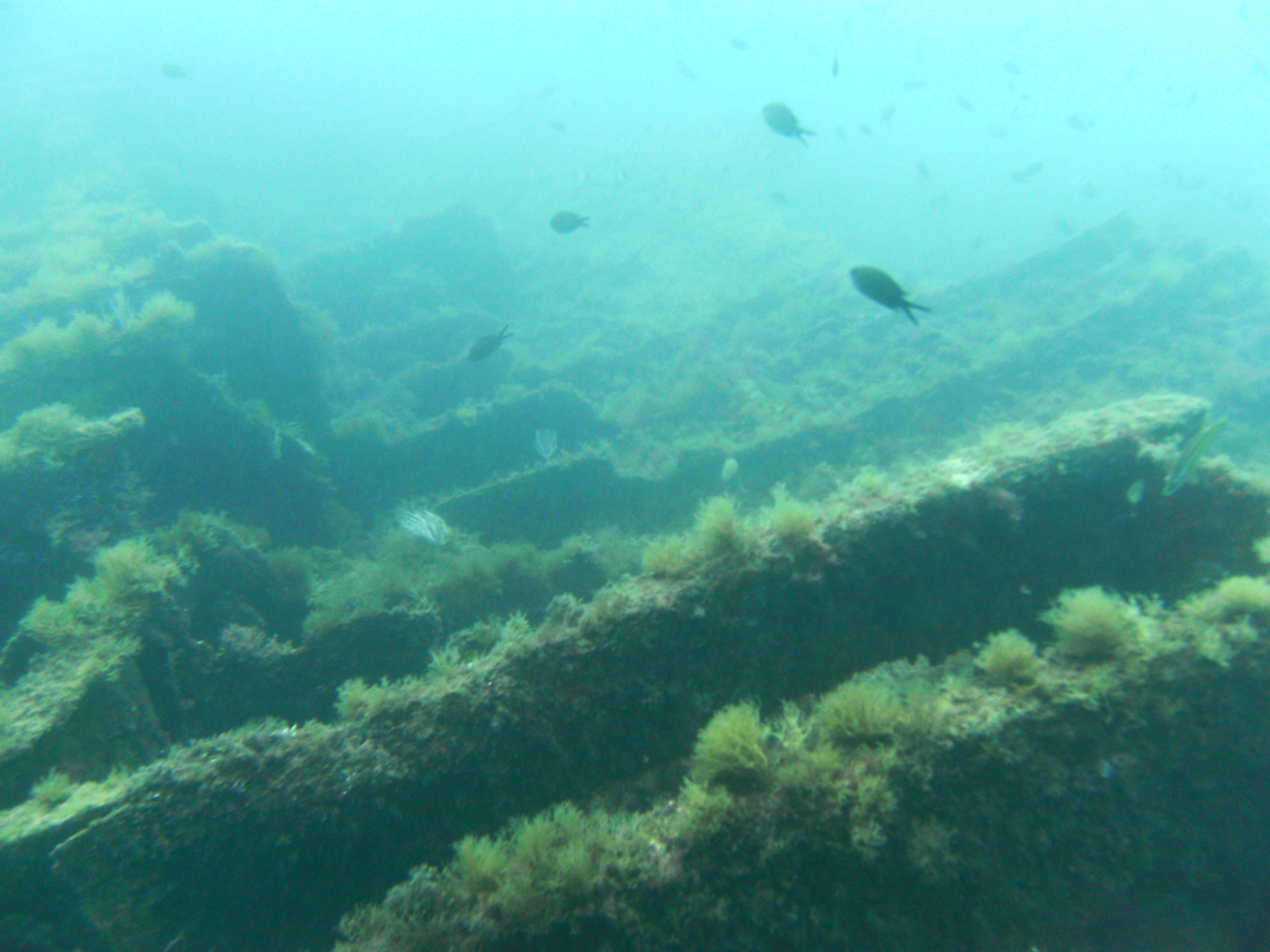 Hull of the Llanishen (1901) at Punta de s'Oliguera, Cap de Creus